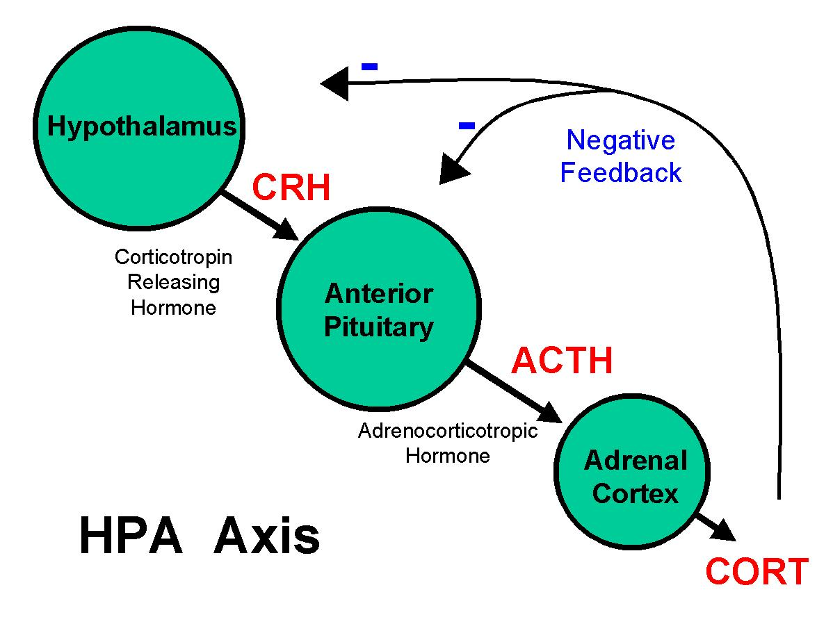 Basic hypothalamic–pituitary–adrenal axis summary (corticotropin-releasing hormone=CRH, adrenocorticotropic hormone=ACTH). Original work from Jessica Malisch and Theodore Garland Feb. 25, 2004